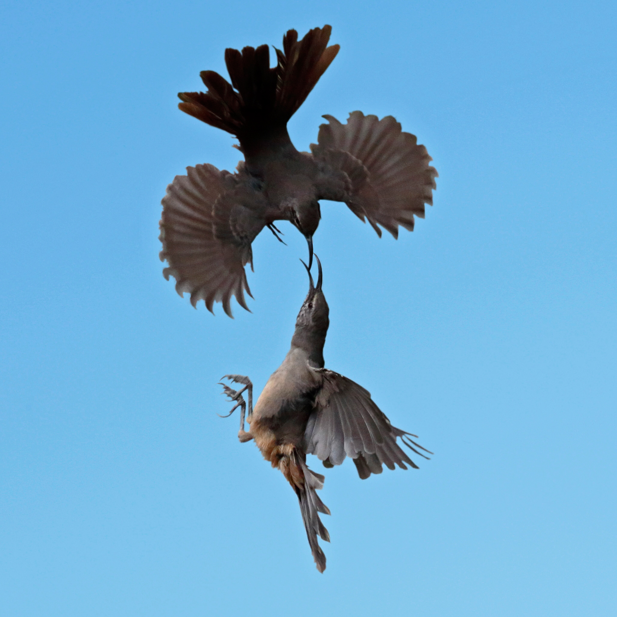 California thrashers in mating ritual at Descanso Gardens, California.